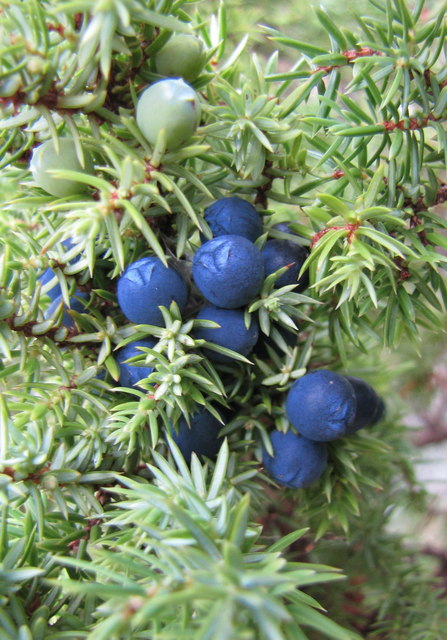 Juniper berries. Last year's berries are ripe and ready for picking. This year's berries are green and can be seen just behind. 1593511